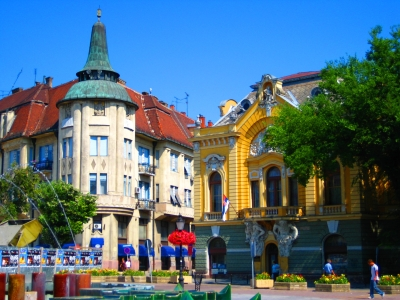 Subotica's main square - a view of the library and a sweethouse.